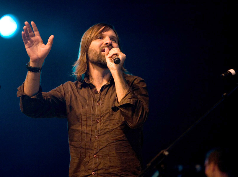 The Birmingham show of Glory Revealed II at Shades Mountain Church